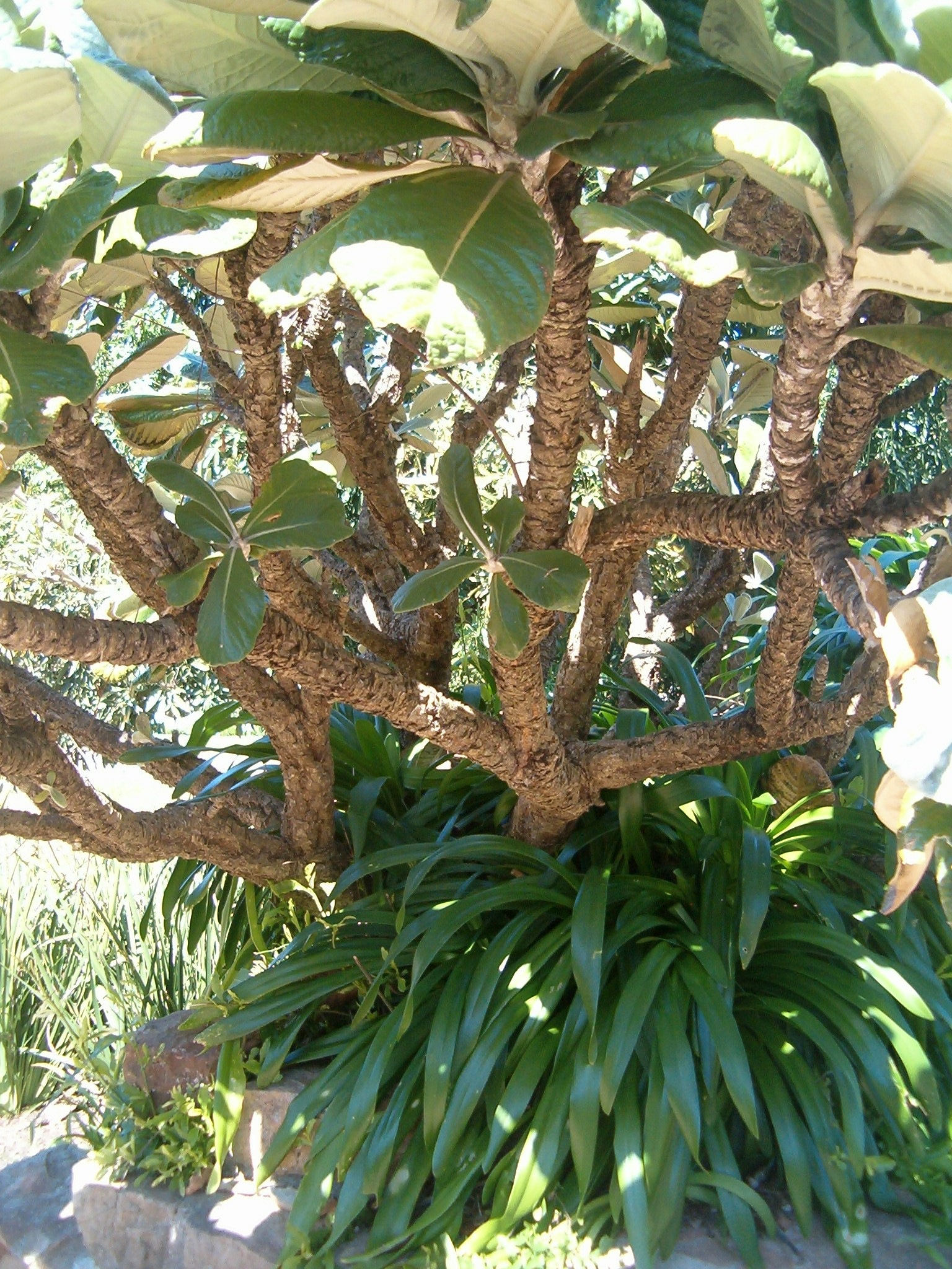 At Kirstenbosch National Botanical Gardens Species Oldenburgia grandis